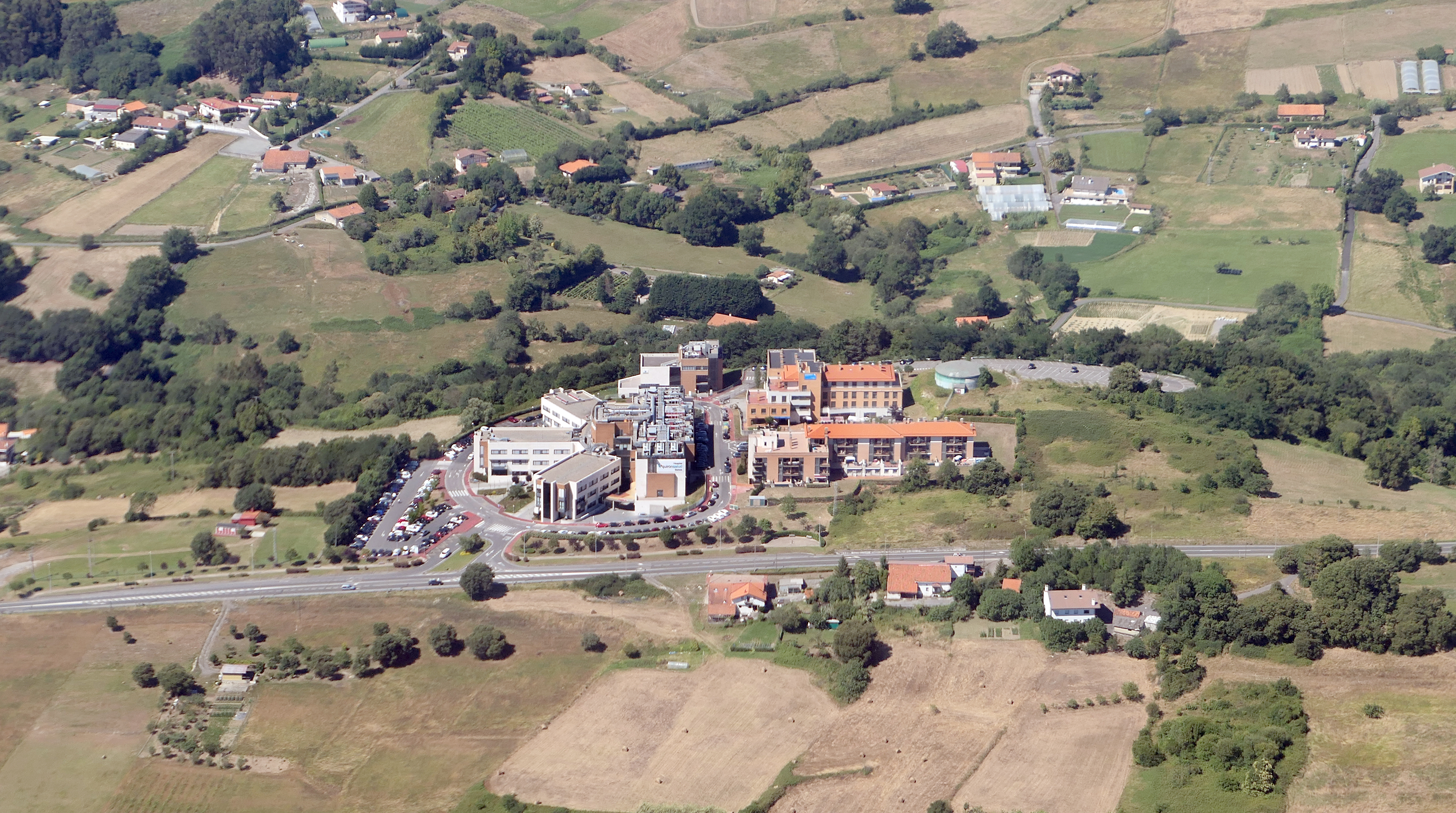 An aerial view of Quirón hospital near Bilbao, in the Basque Country.